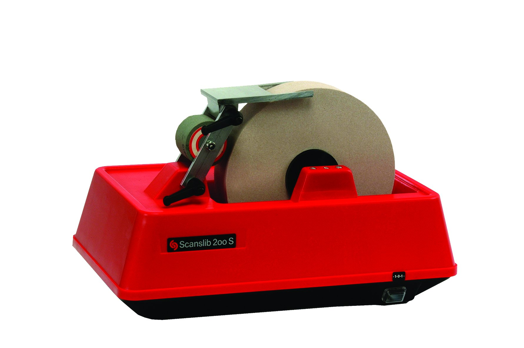 The Wetgrinder was invented by Jens-Martin Nielsen in 1980.